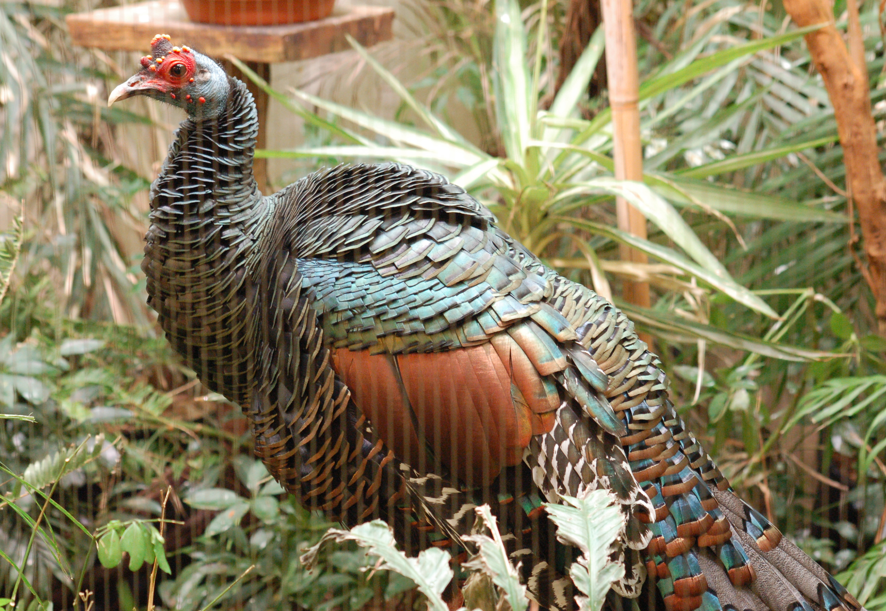 A photograph of an Ocellated Turkeyen (Meleagris ocellata en ) showing its plumage. Photo taken at the National Aviary.